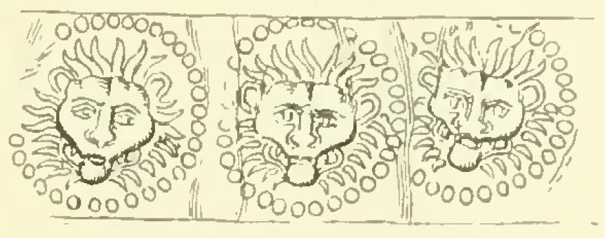 Diadem